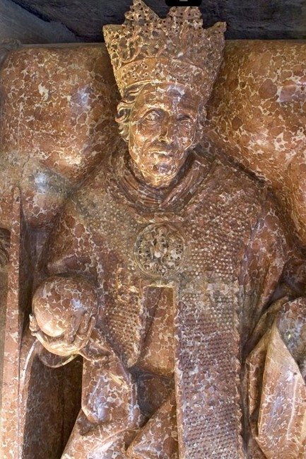 Polish king Casimir Jagiellon IV, his sculpture in Royal Cathedral in Krakow, 1492.